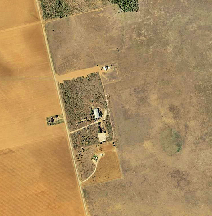 USGS digital orthophoto of Lamesa Army Airfield in Texas